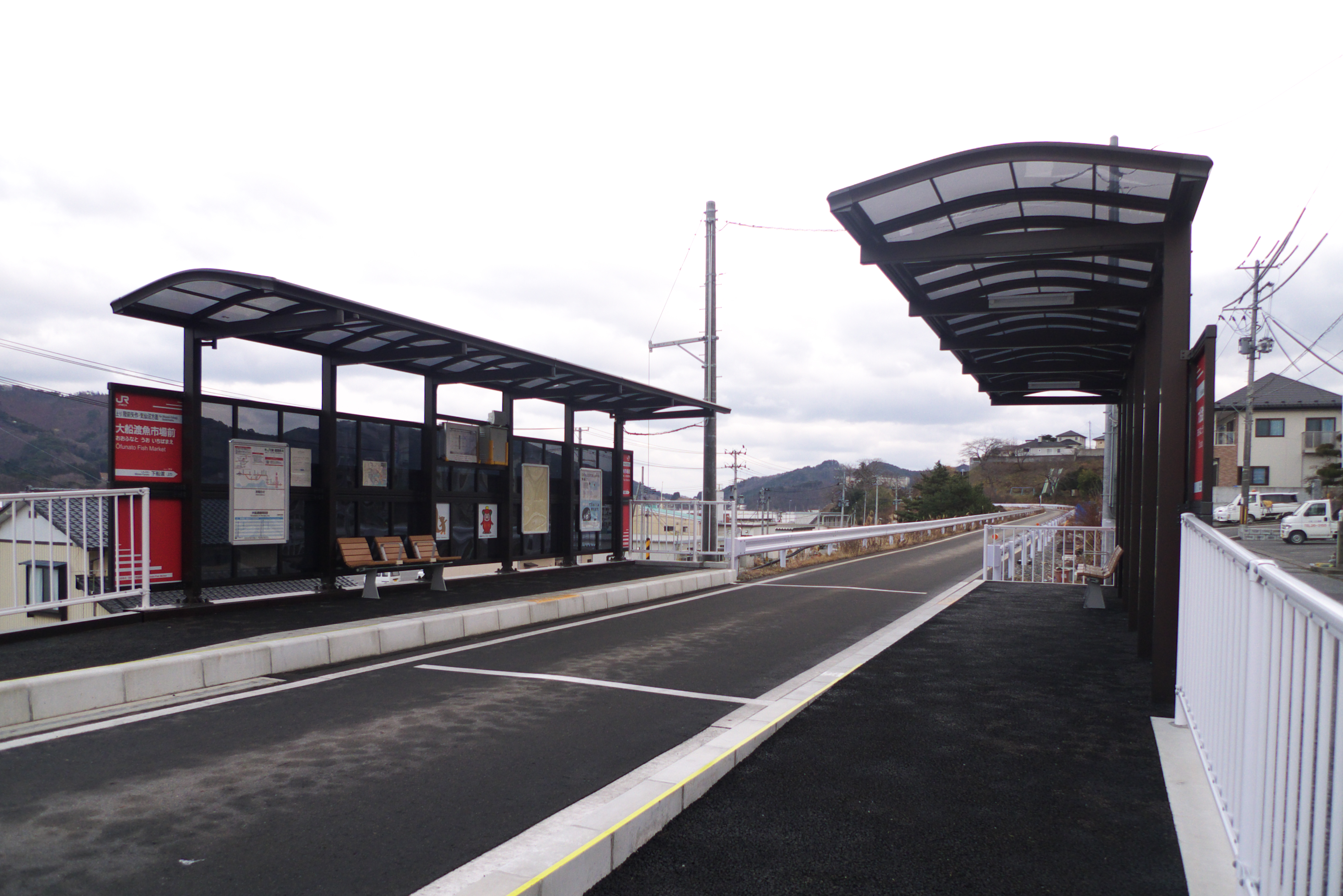 East Japan Railway Company (JR East) Ofunato Line BRT Ofunato Uoichibamae (Ofunato Fish Market) Station in Ofunato City, Iwate Prefecture, Japan